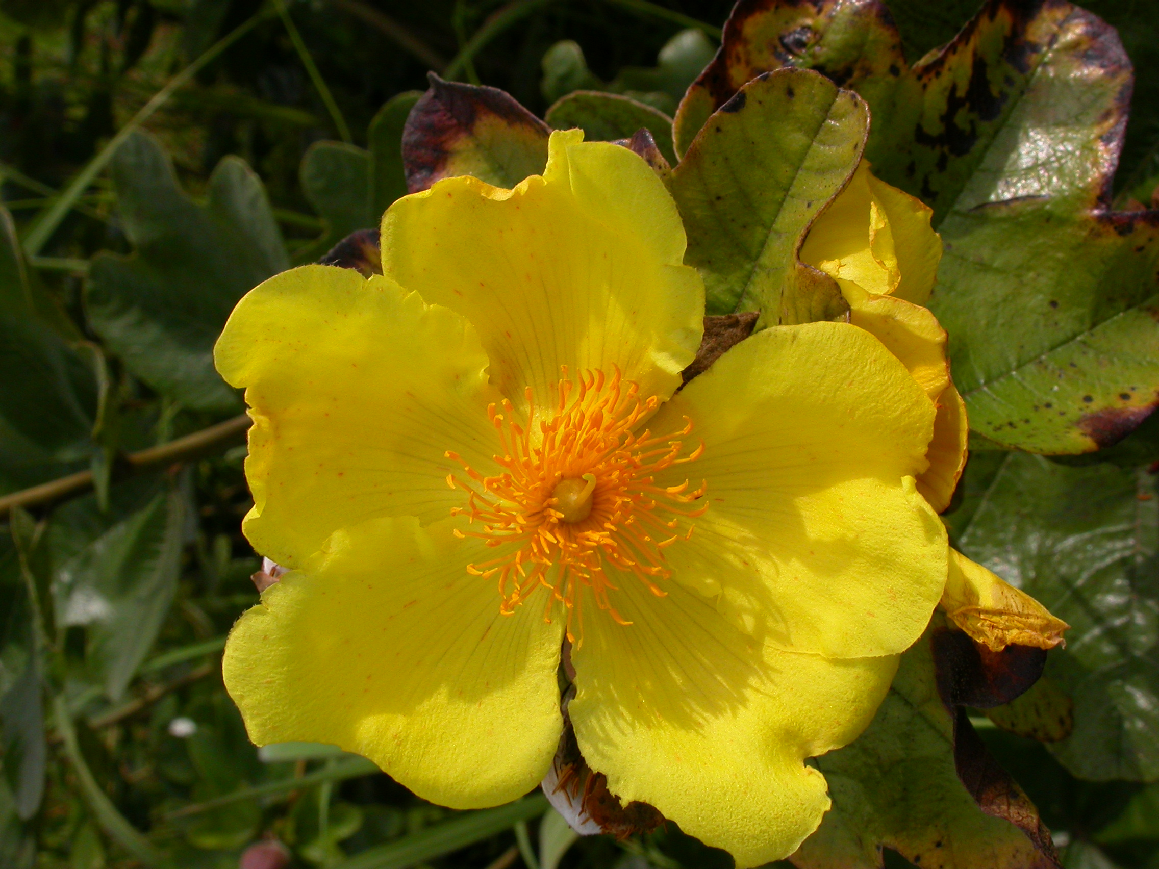 flowers of Cochlospermum planchonii. Burkina Faso.